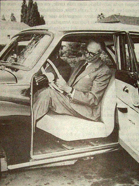 The argentinian president Arturo Frondizi testing an Argentina built DKW Auto Union 1000